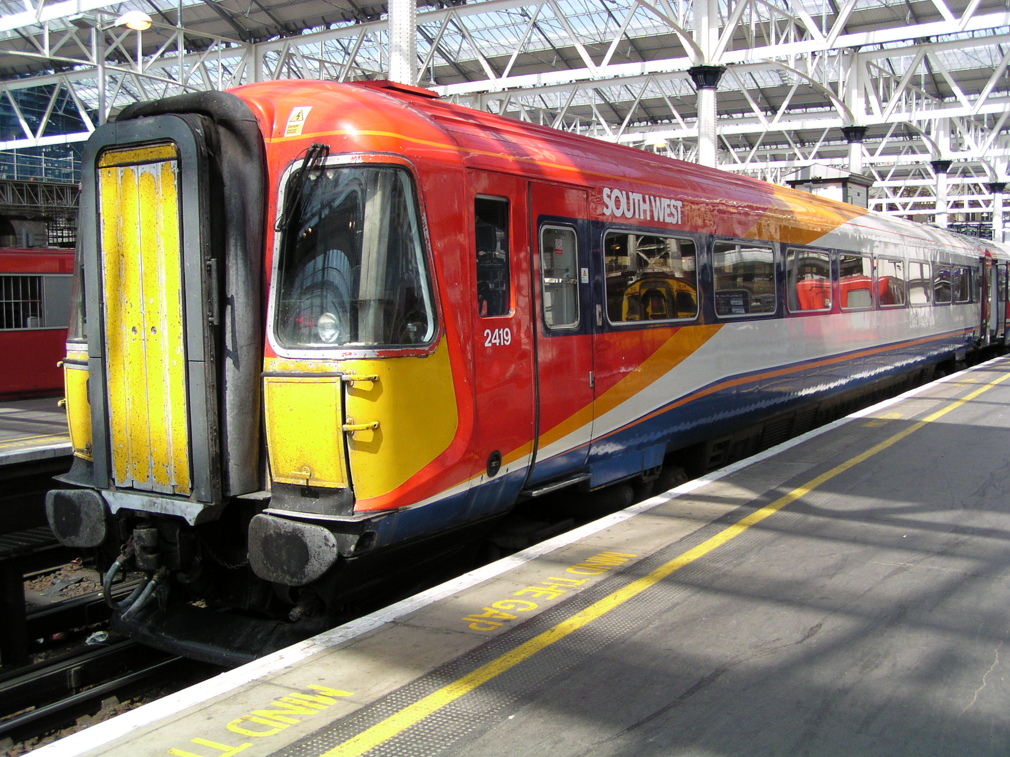 BR Class 442, no. 2419 "BBC South Today" at London Waterloo on 19th July 2003. This unit is painted in South West Trains Express livery. Image by Phil Scott (Our Phellap)